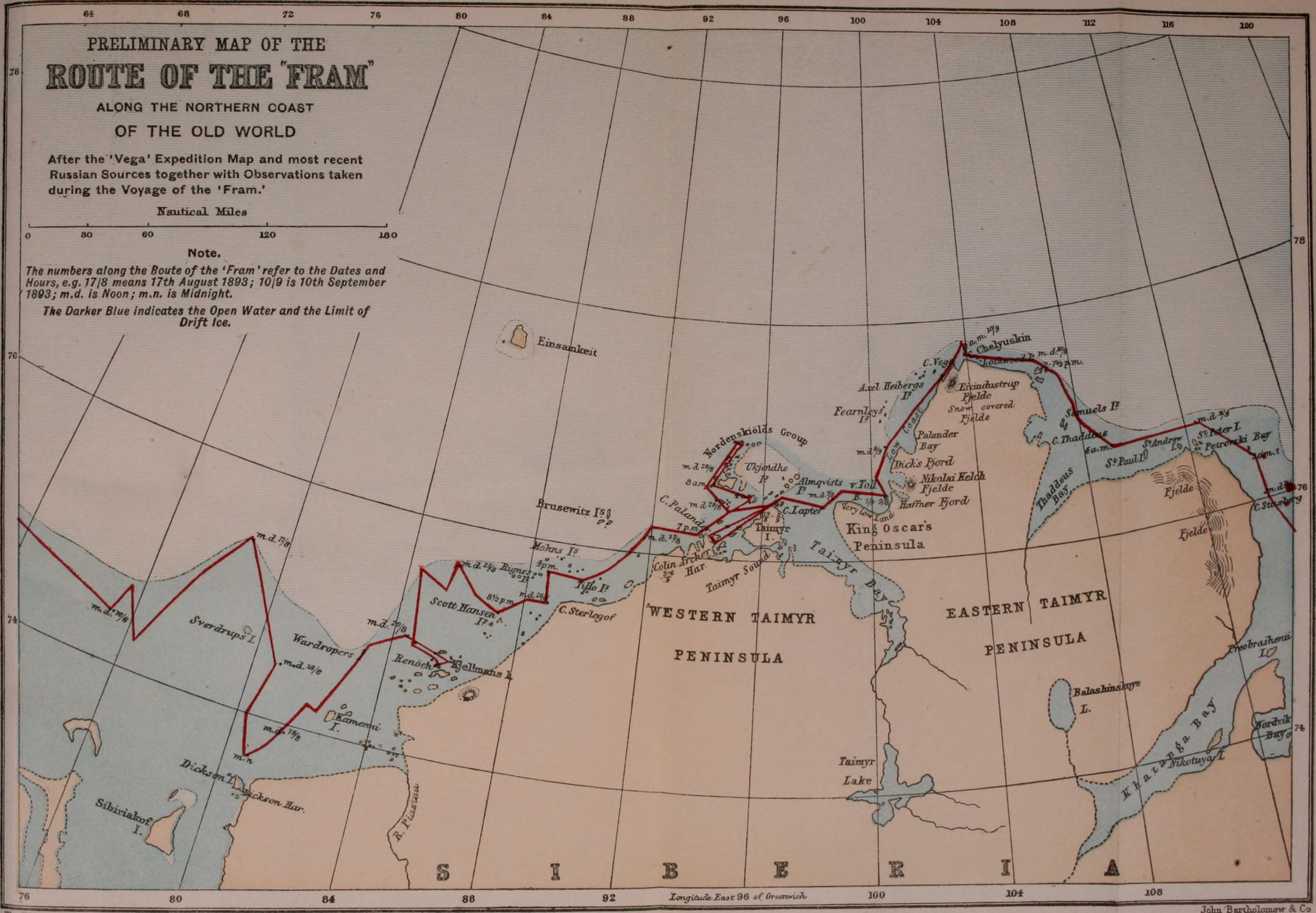 Title: Farthest north; being the record of a voyage of exploration of the ship "Fram" 1893-96, and of a fifteen months' sleigh journey by Dr. Nansen and Lieut. Johansen Year: 1897 (1890s) Authors: Nansen, Fridtjof, 1861-1930 Sverdrup, Otto Neumann, 1854-1930 Subjects: "Fram" Expedition. 1893-1896) Publisher: New York, Harper & Brothers Text Appearing Before Image: Th£ Edmburgt. GeograpHcaT Institule Johfl ^^X^yip^rrmen^ &. Co Text Appearing After Image: * IdmburgL. GeogtapHcaX Insuuue Joika BaxtlipliJin.sw & Co Nansens Farthest North. Harper & Brothers, New York.